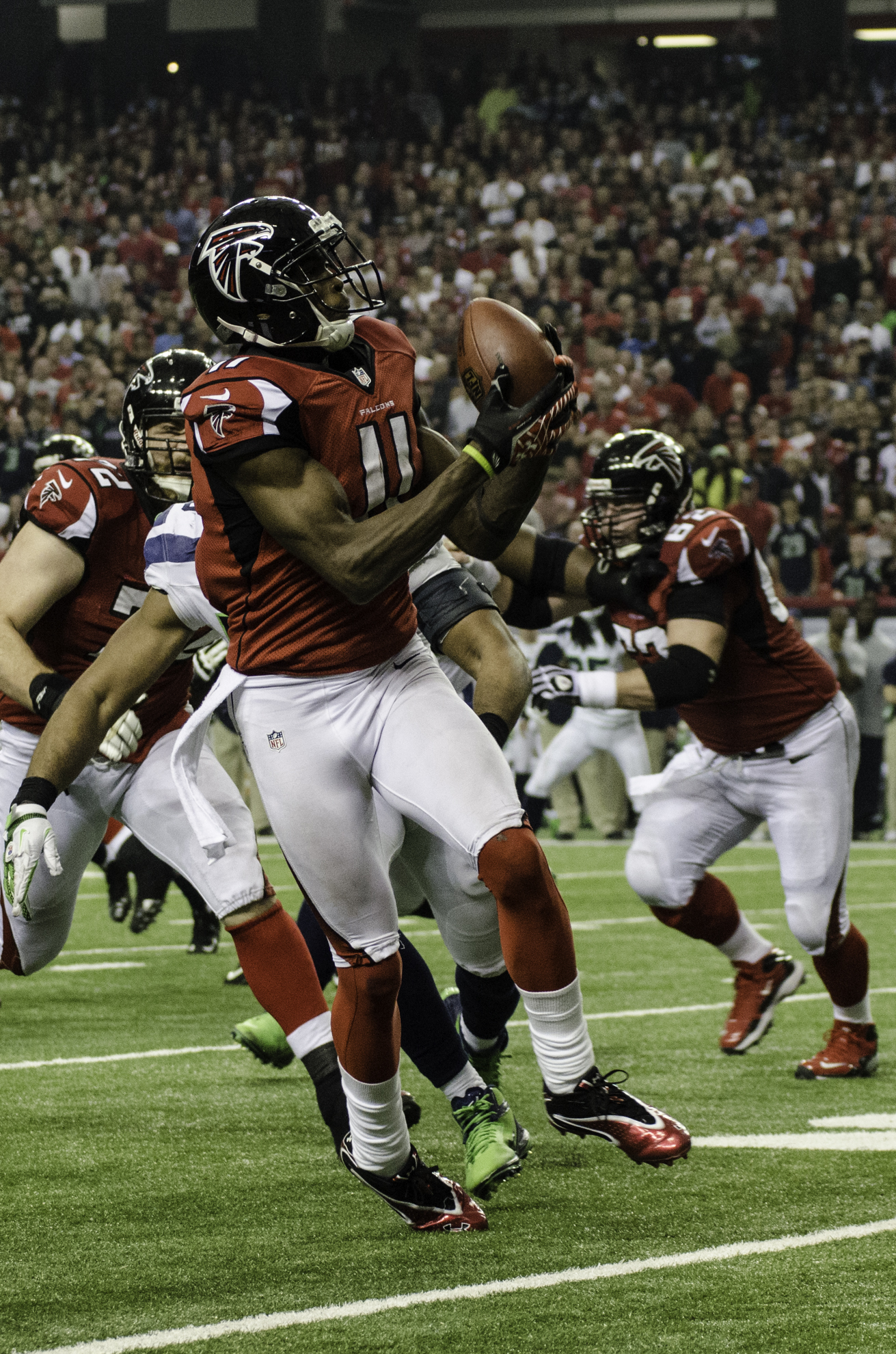 ATLANTA, Jan. 13, 2013 - Wide receiver Julio Jones pulled in a pass from Matt Ryan. Jones intercepted the final play in the end zone for a touch-back to secure the Falcons win over the Seahawks.